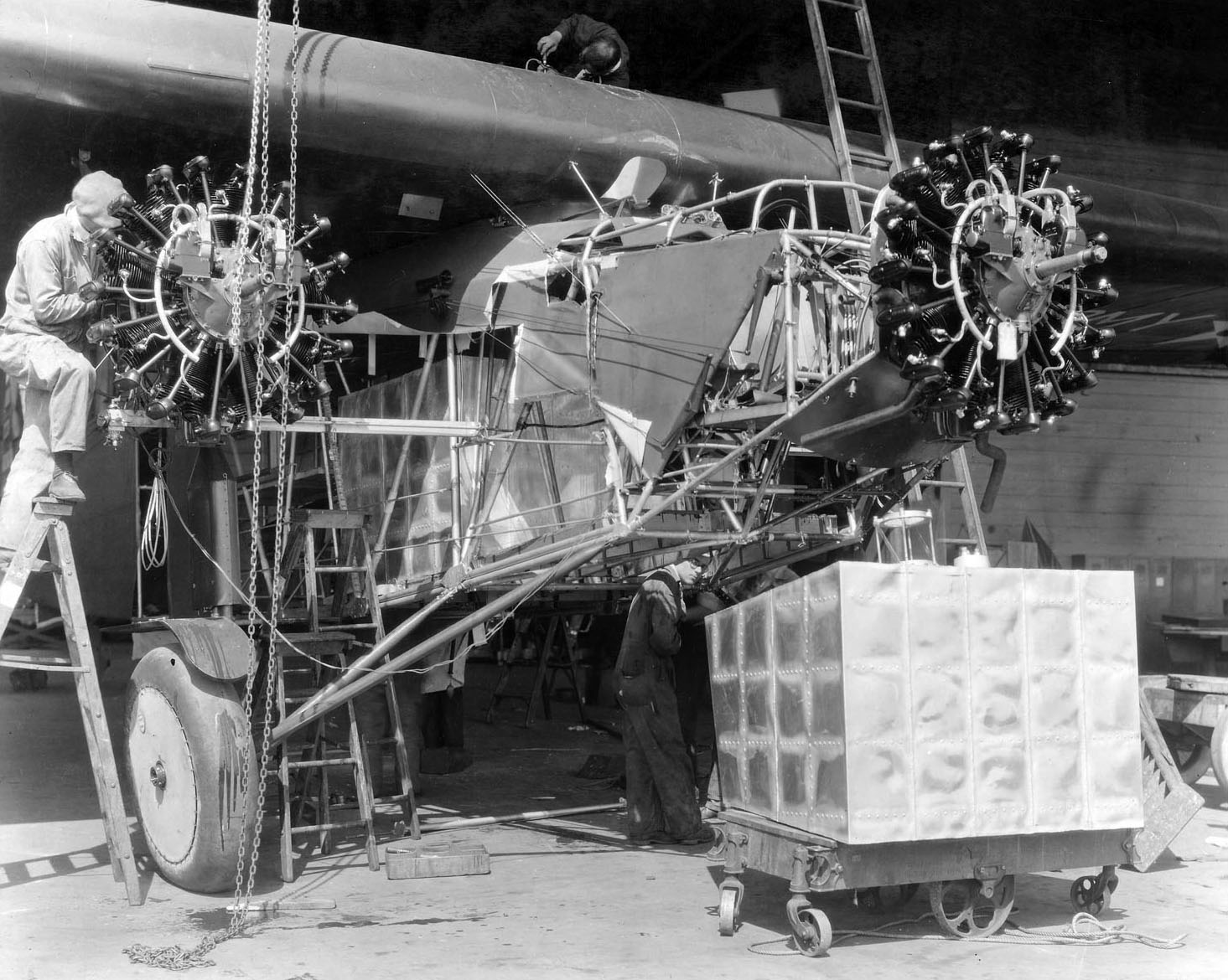 Atlantic-Fokker C-2 Bird of Paradise during modification. Rear auxiliary tank installed, front auxiliary tank ready for installation. (U.S. Air Force photo)